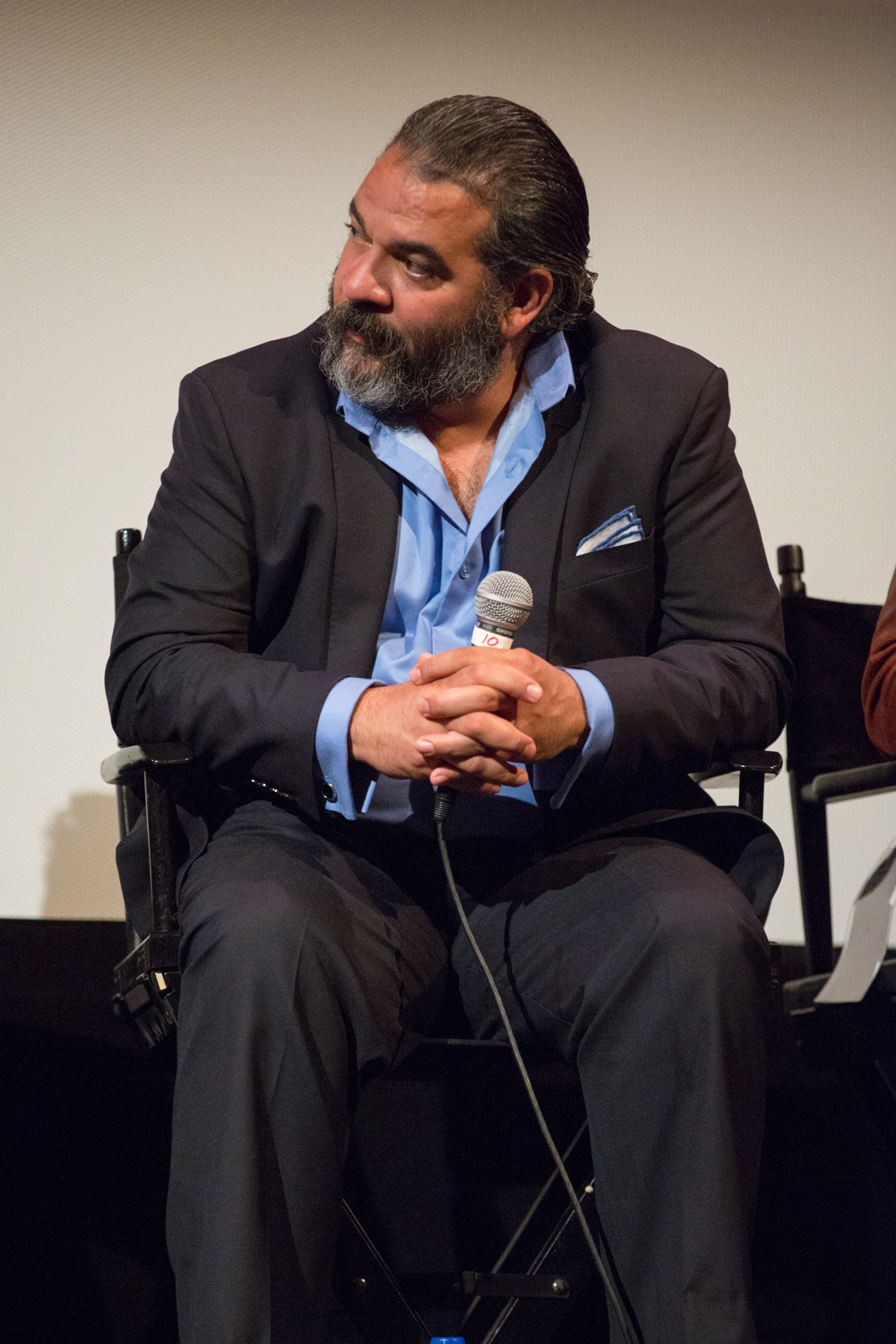 Hemky Madera at the ATX Television Festival presentation of the TV show "Queen of the South"